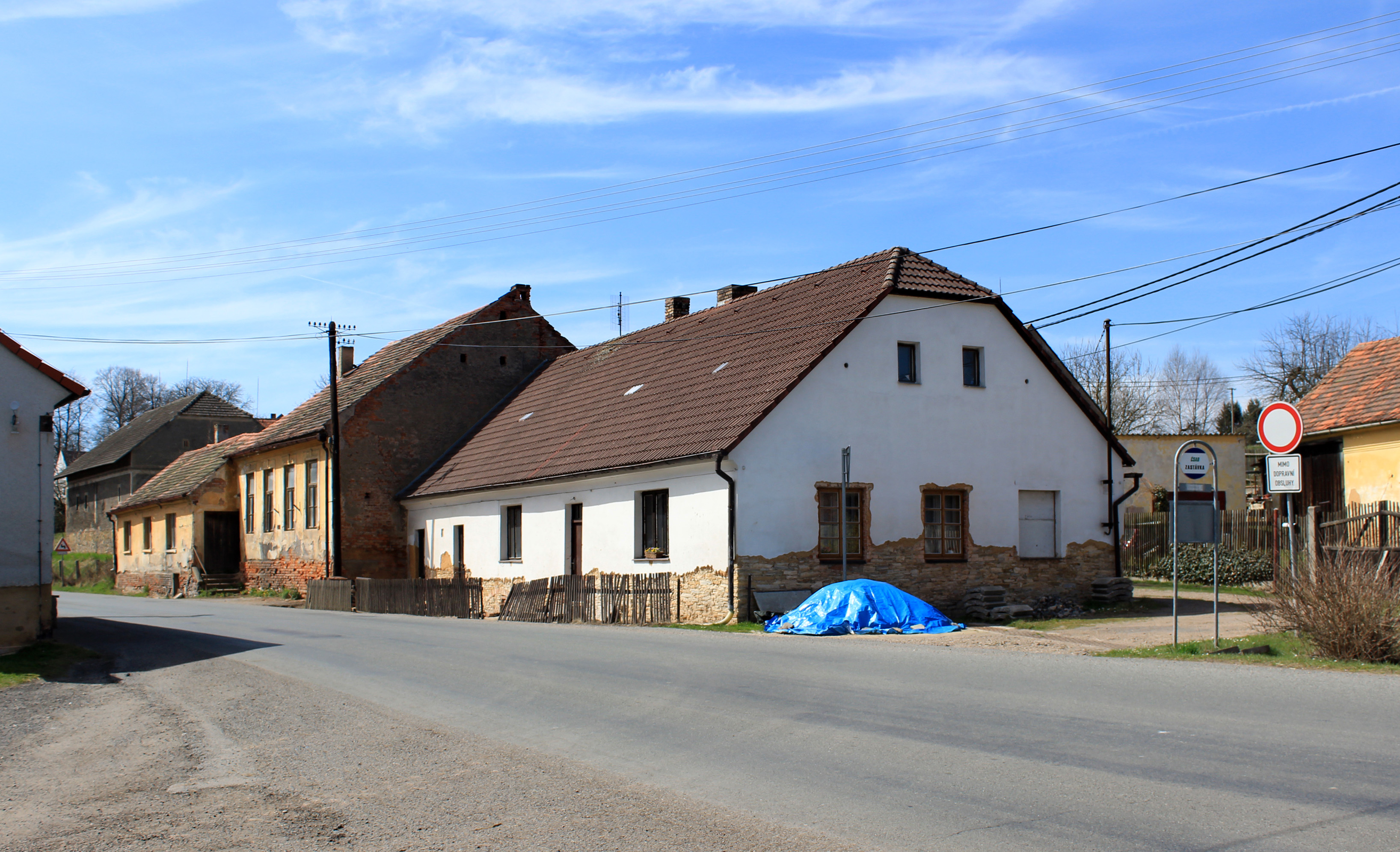 House No. 20 in Chomle village, Czech Republic.